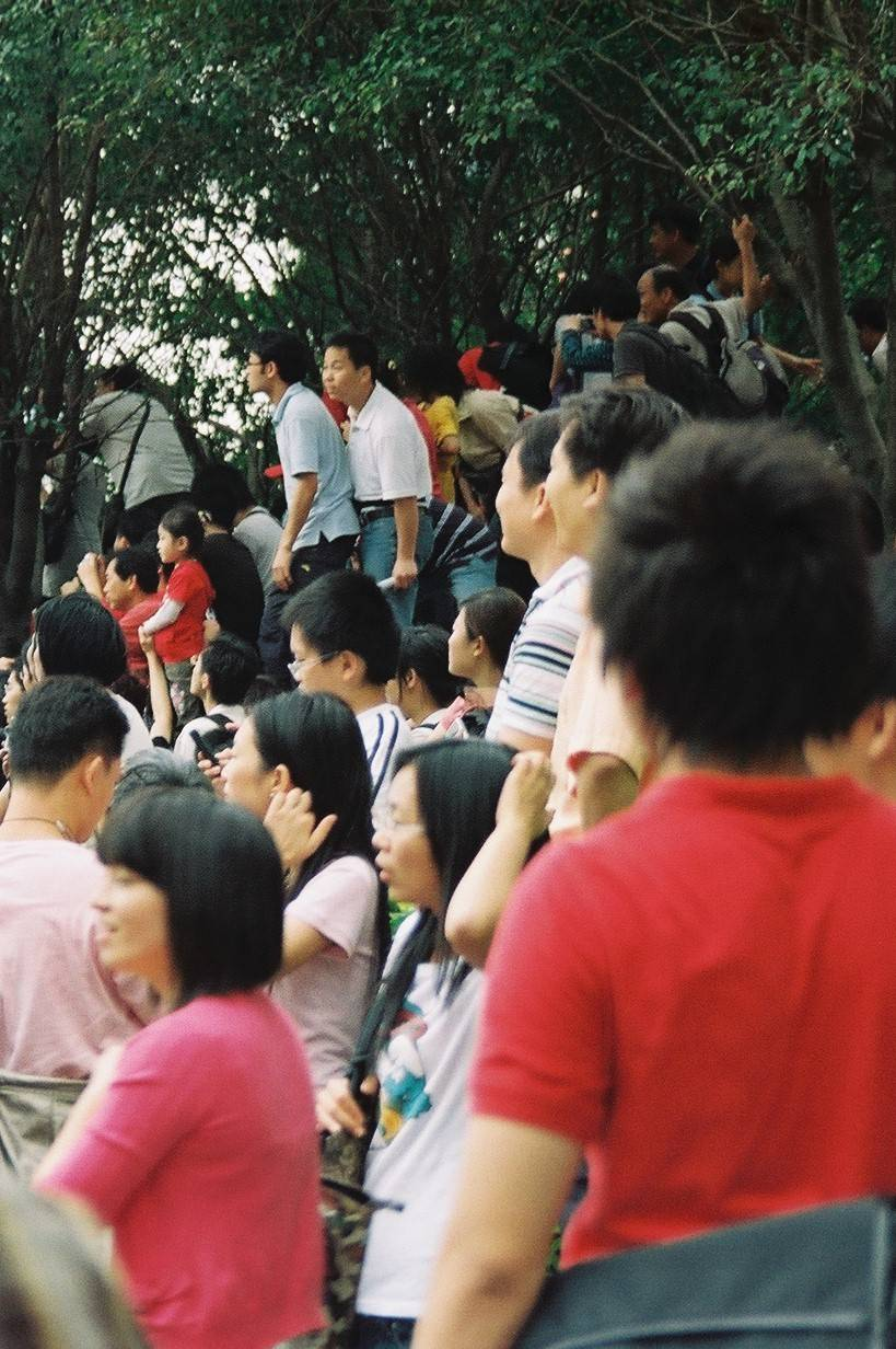 Wan Chai is a sea of people as Hong Kong turns out to cheer the Olympic torch relay.